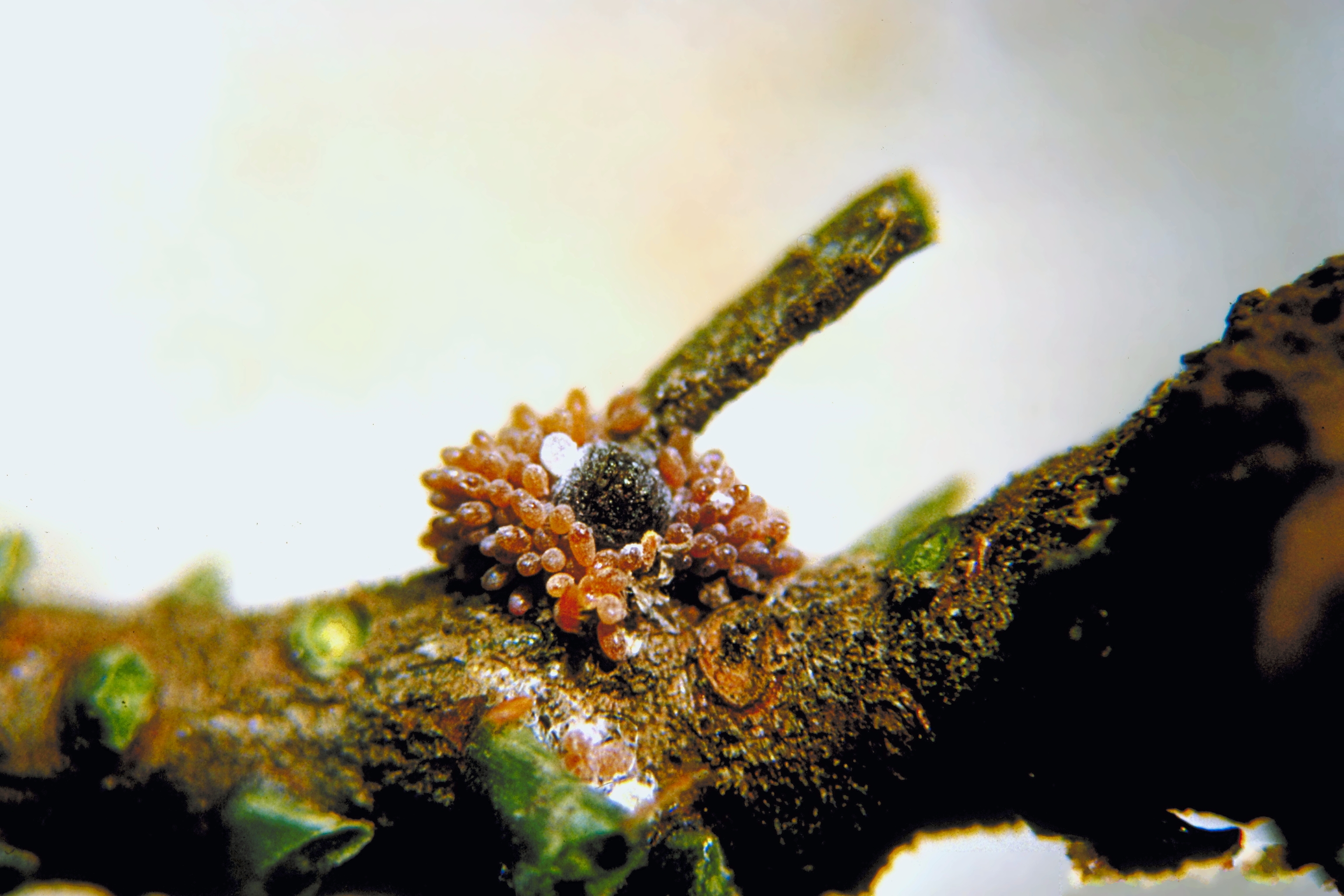 Adelges piceae Ratzeburg Common Name: balsam woolly adelgid Photographer: Scott Tunnock, USDA Forest Service, United States Descriptor: Egg(s) Description: close-up Image taken in: United States